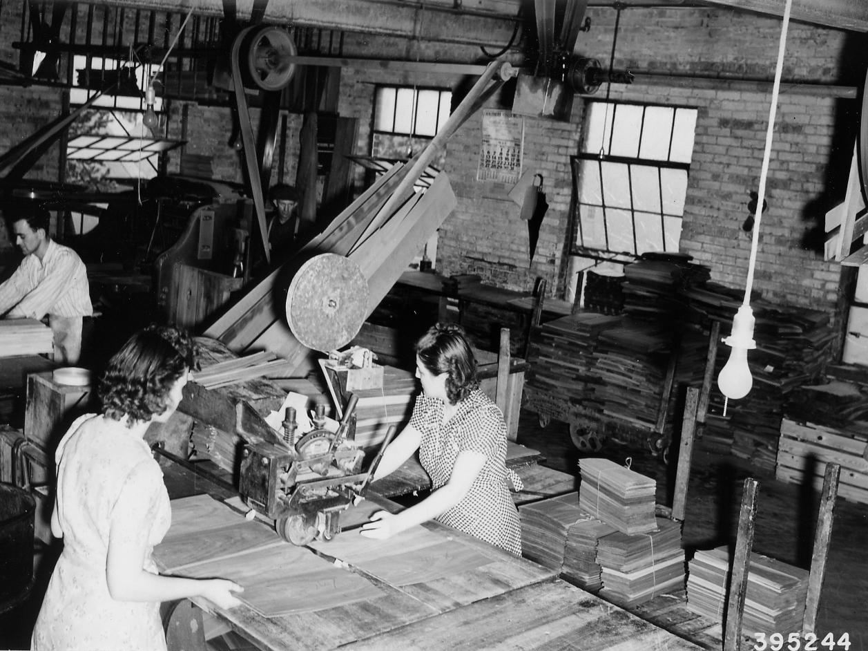 Scope and content: Original caption: Taping walnut veneer strips, using a taping machine. These strips are glued to basswood cores for use in manufacturing radio cabinets. Tell City Chair Factory. Tell City, Indiana.